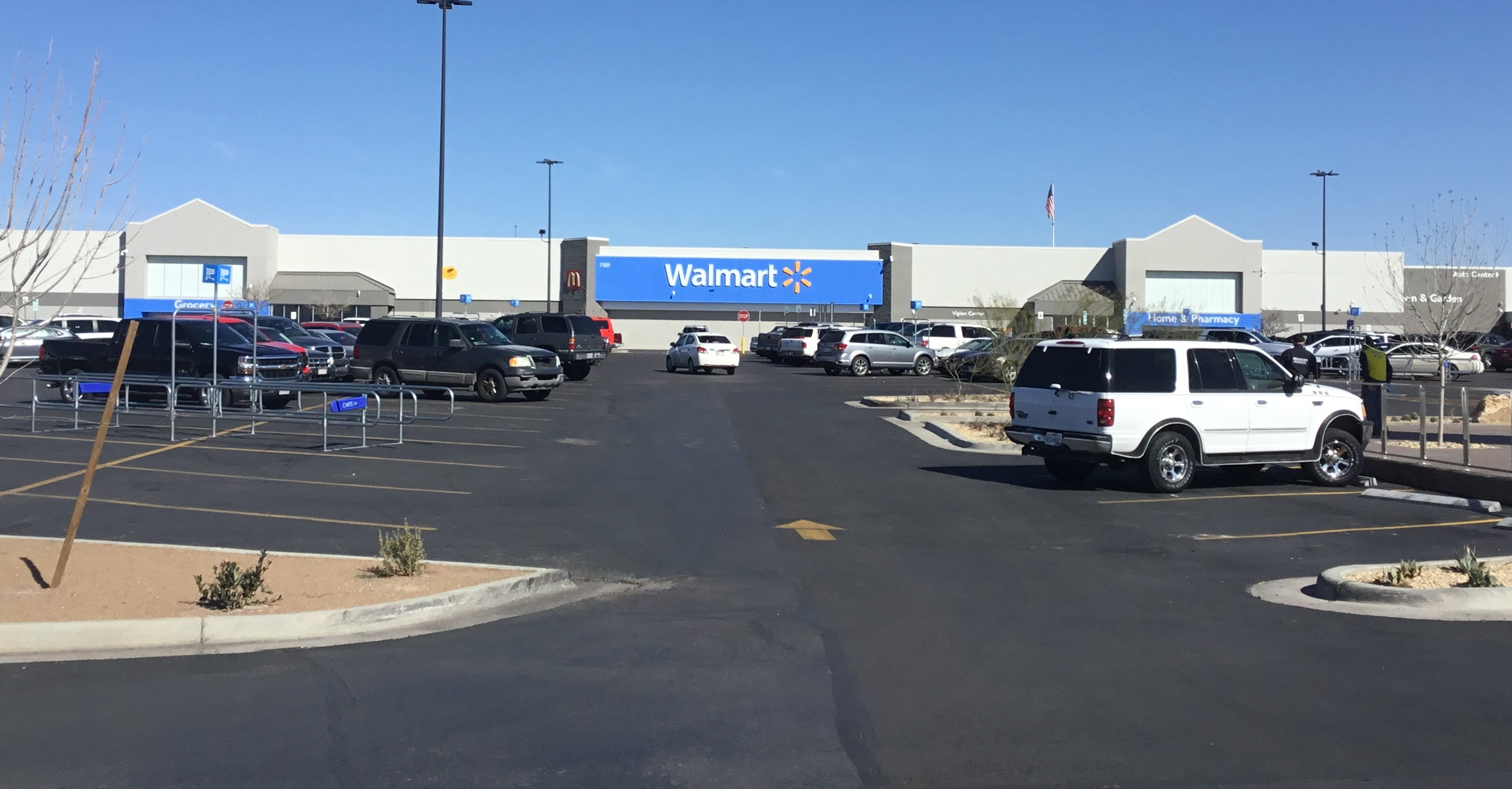 A photograph of the Walmart in El Paso, Texas where the 2019 El Paso shooting took place